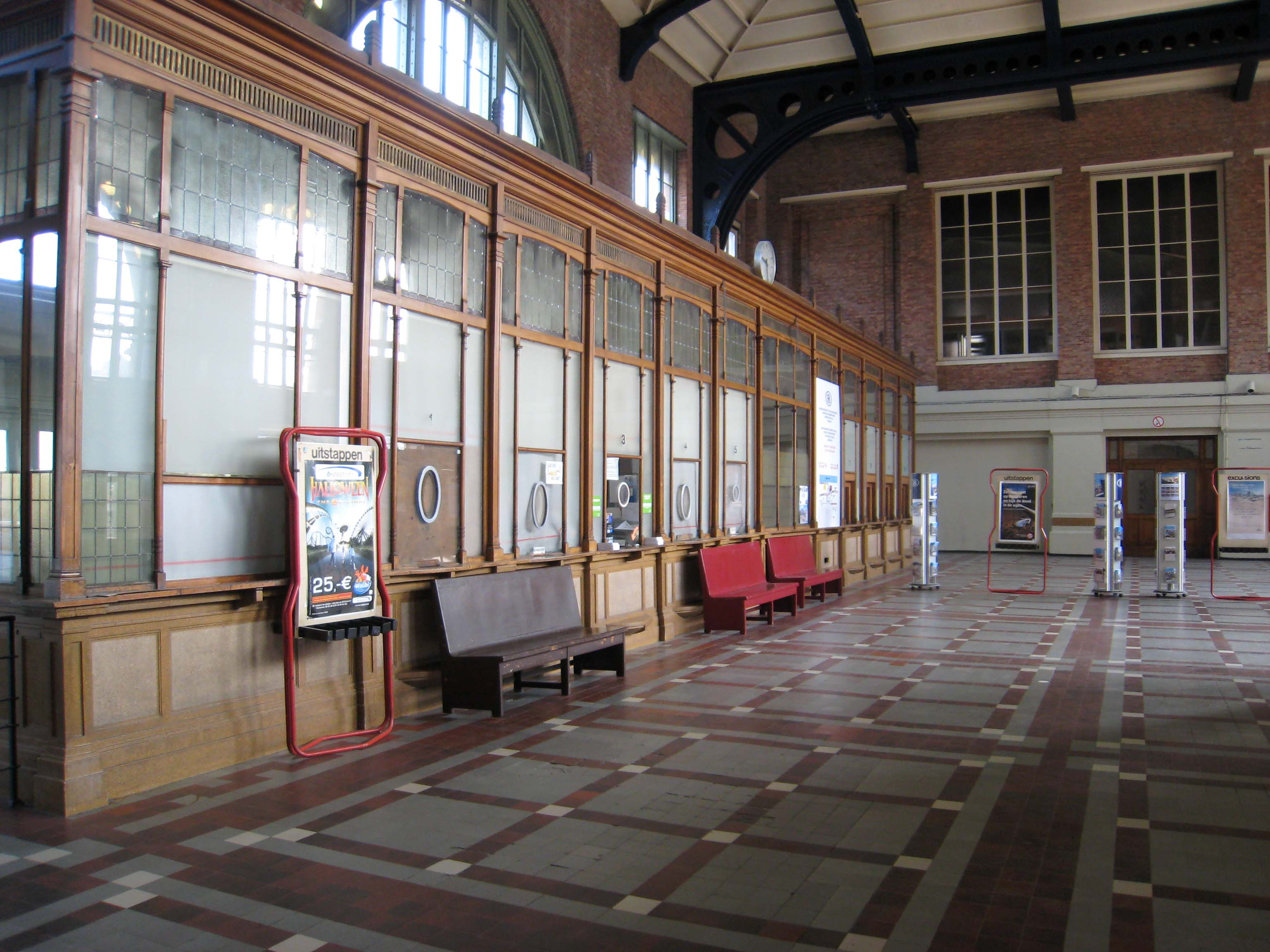 The ticket offices inside Schaerbeek station, quiet (as normal) at about 9 AM on a typical weekday morning.